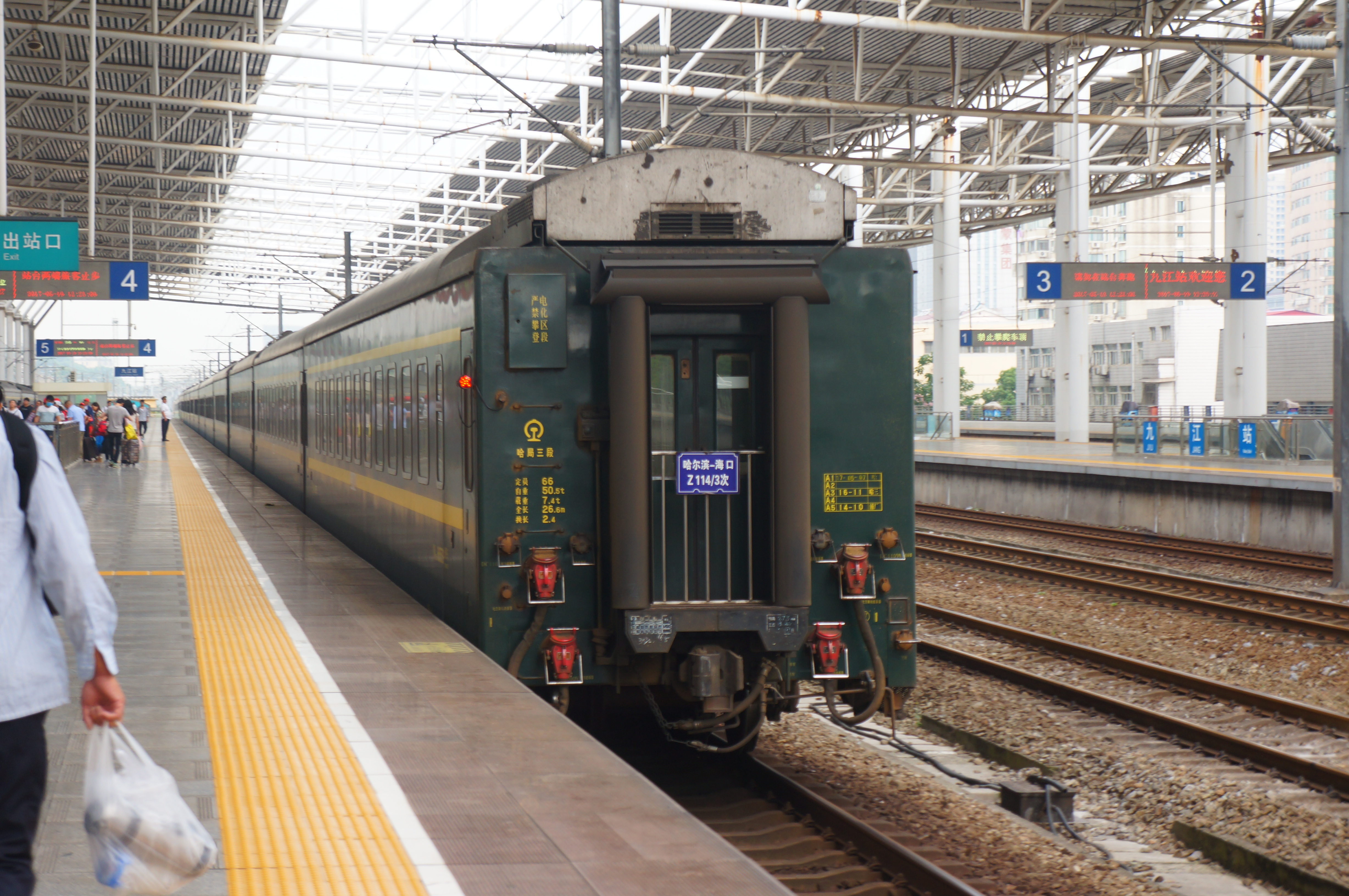 201705 delayed Z111 departs from Jiujiang Station.